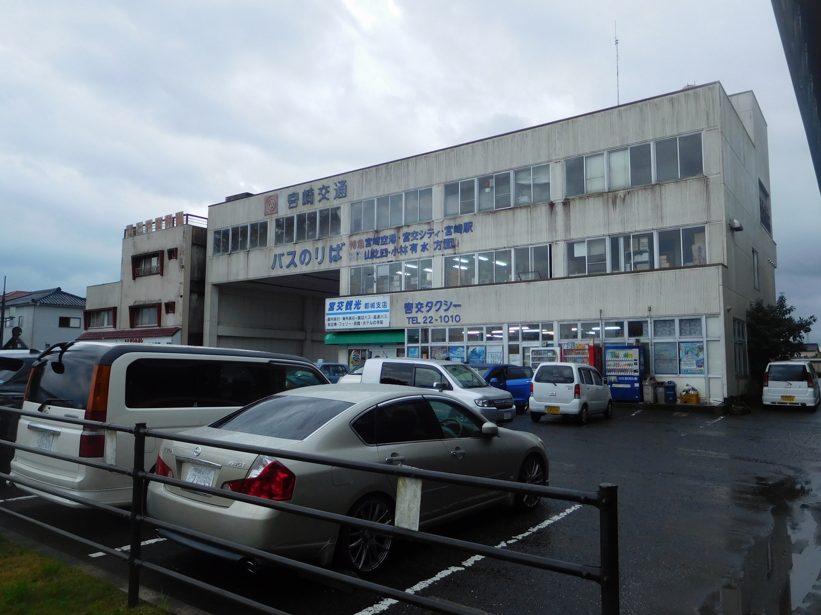 Miyazaki Kotsu Nishi-Miyakonojo Bus Terminal (Miyakonojo City, Miyazaki Prefecture, Japan)